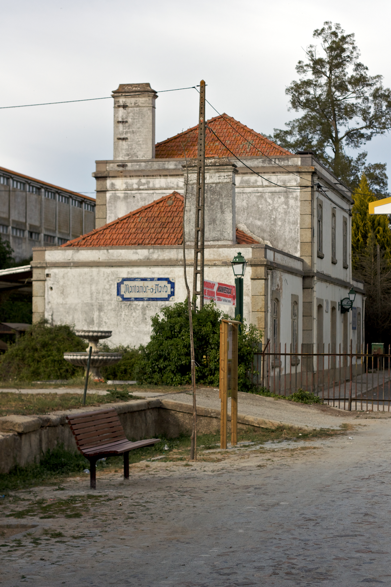 Abandoned Railway Station of Montemor-o-Novo